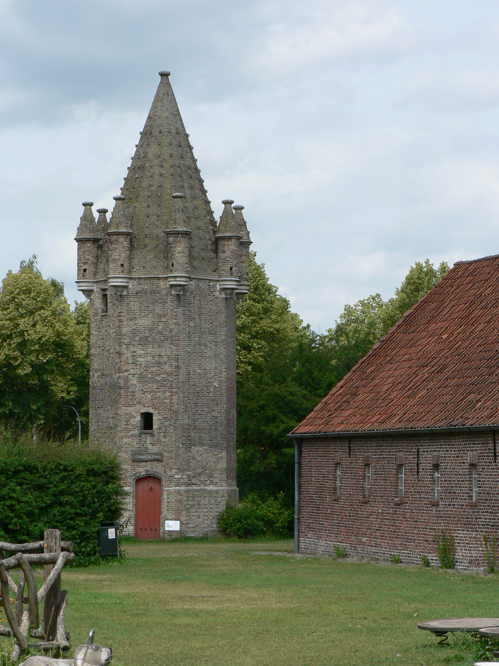 maximum seven towers can be seen from one point of view (six from the side and one from the middle). Assebroek, Bruges, Belgium.